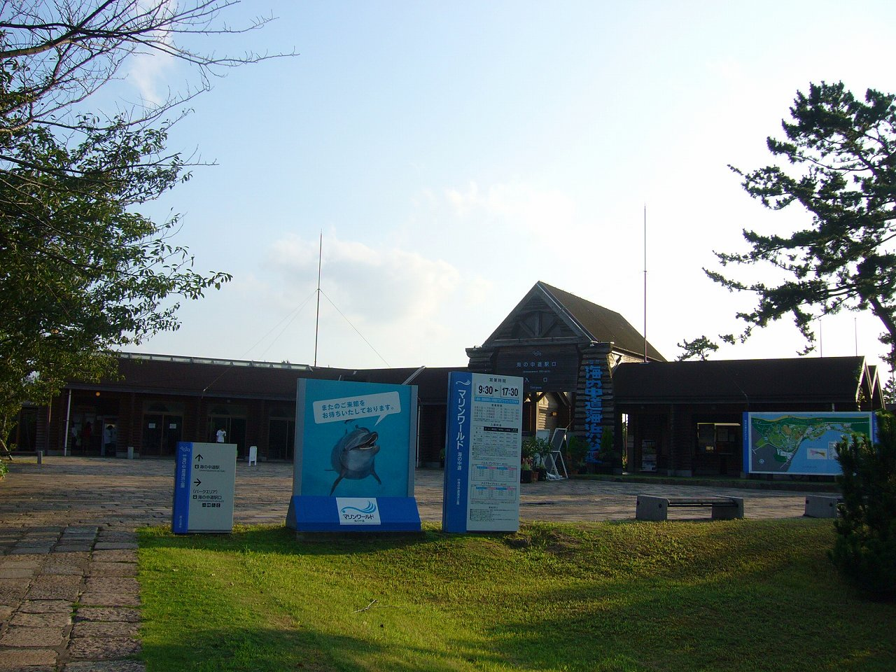 Uminonakamichi Station in Higashi-ku, Fukuoka City, Japan